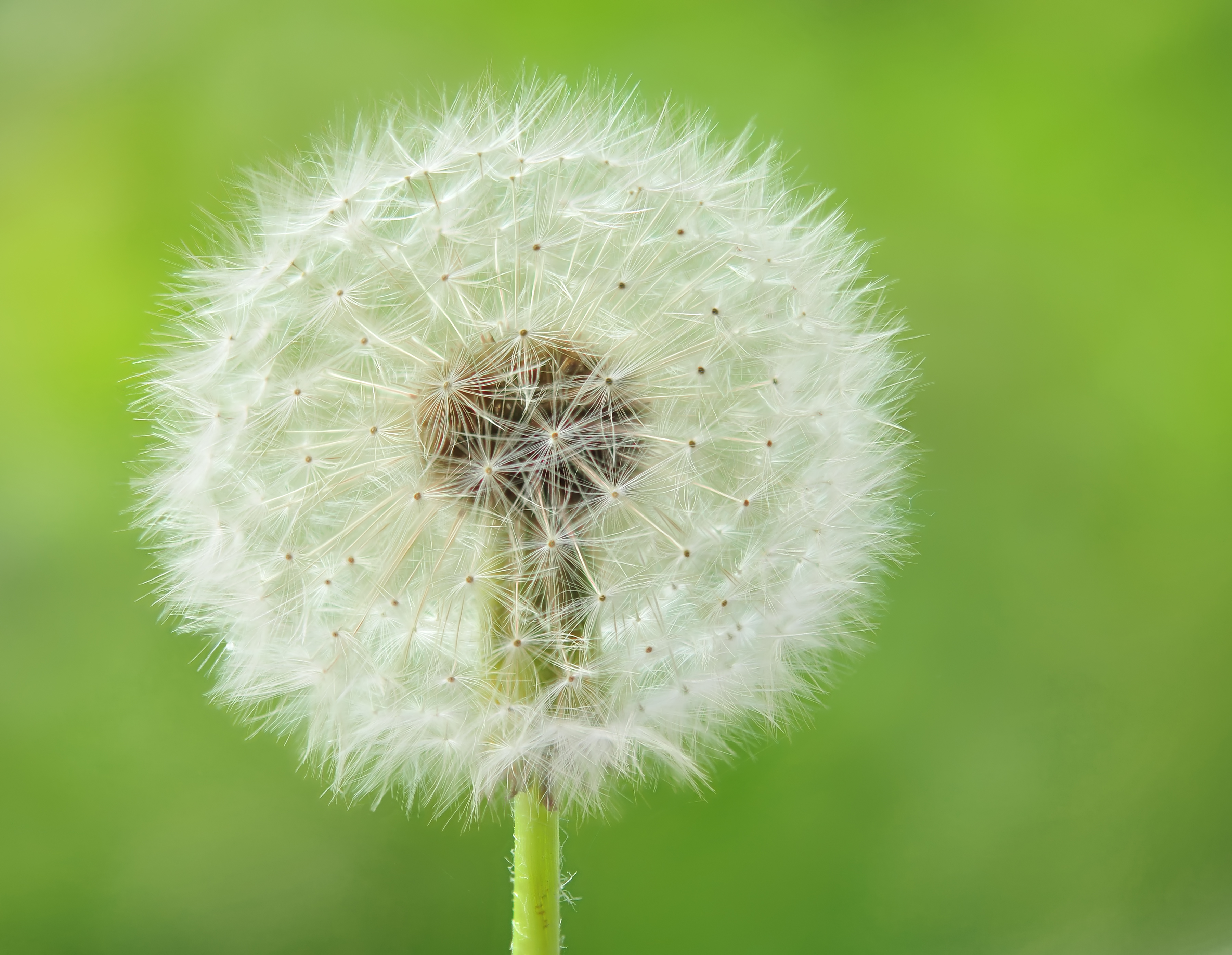 Ripe fruits by Common Dandelion.